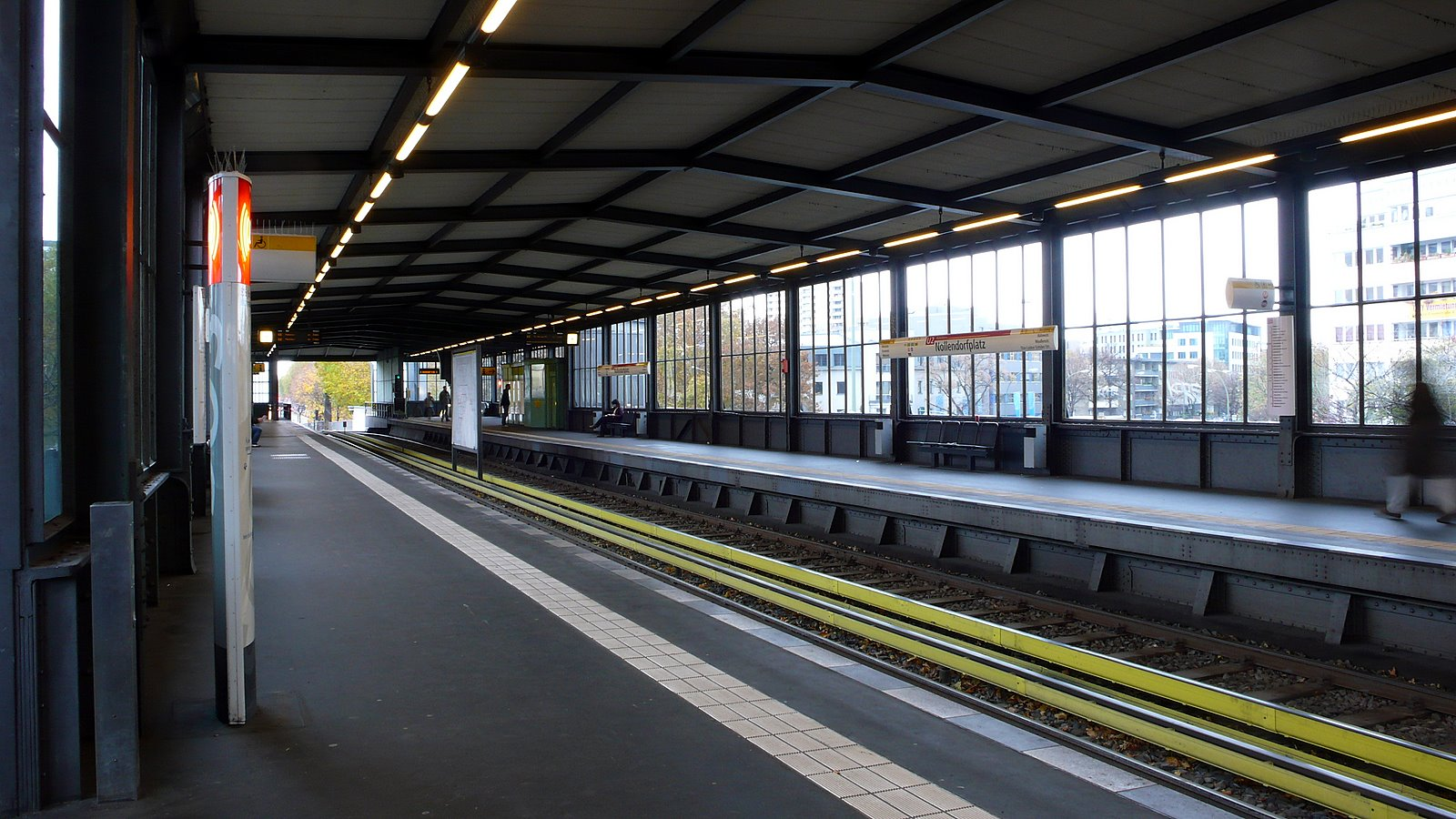 Nollendorfplatz U2 subway